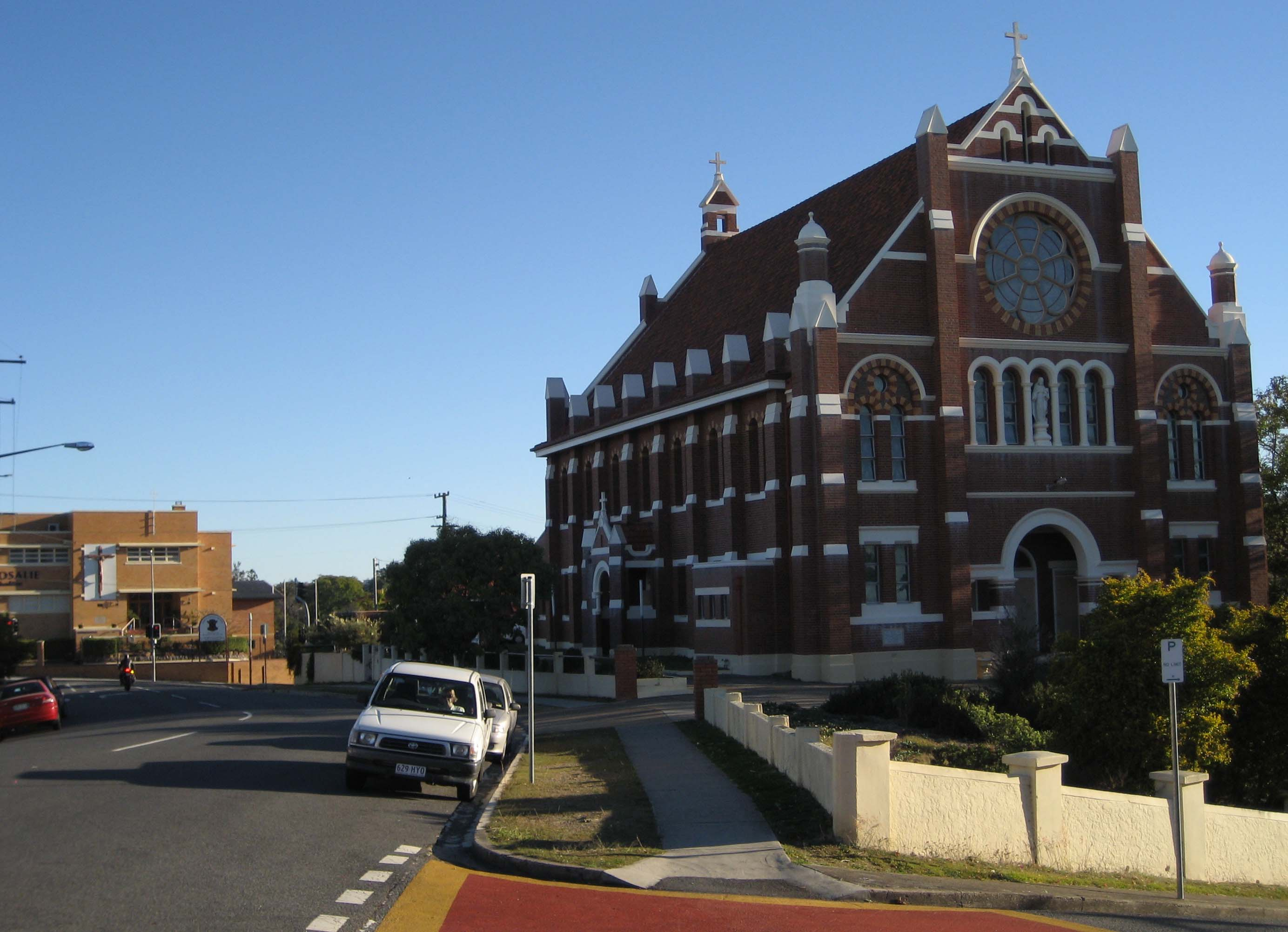 I have taken the photo myself